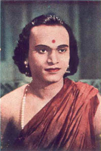 Colorized snapshot of M. K. Thyagaraja Bhagavathar from the film Ambikapathy published by R. Ethirajiah & Sons, Madras